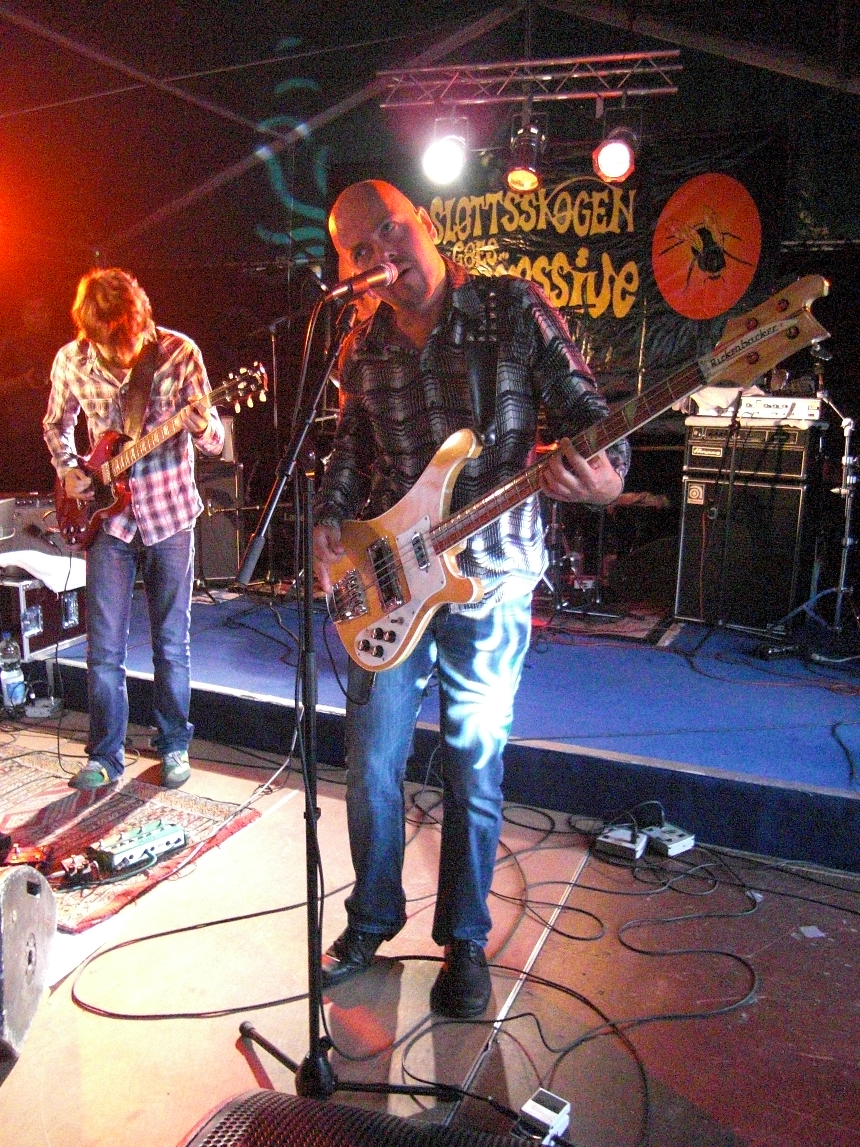 Anekdoten plays at Slottsskogen Goes Progressive 2008 in Gothenburg, Sweden. To the left Nicklas Barker playing a Gibson SG guitar. To the left Jan Erik Liljeström playing a Rickenbacker 4001 bass.